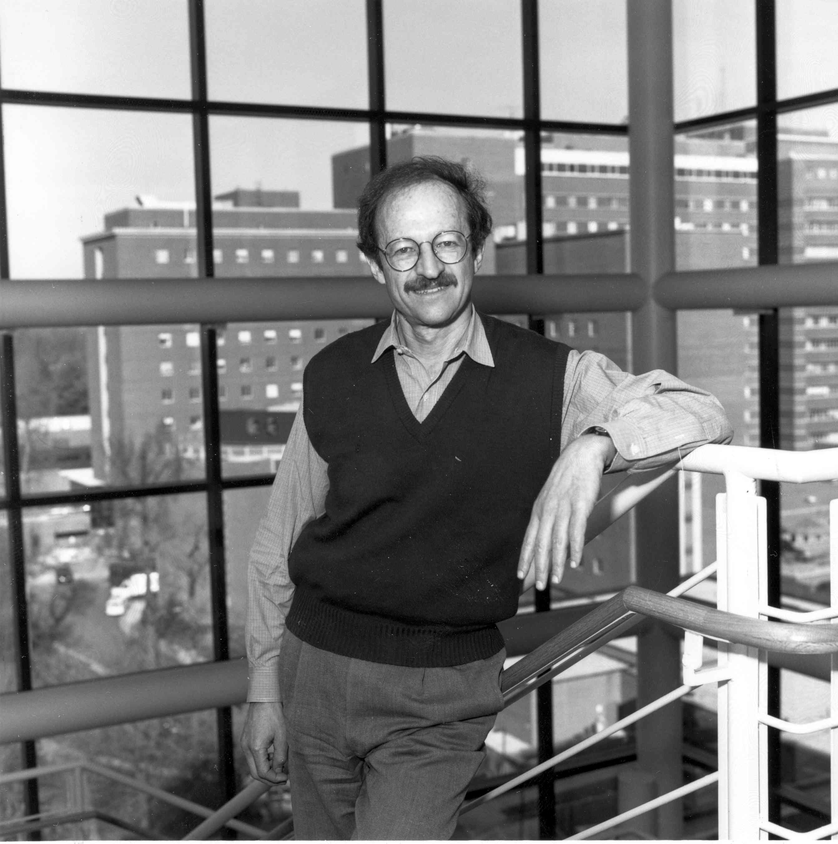 Harold Varmusi retired of director of the National Cancer Institute (NCI) in 2015. This photograph shows the Clinical Center (Building 10) in the background. Photograph by Bill Branson